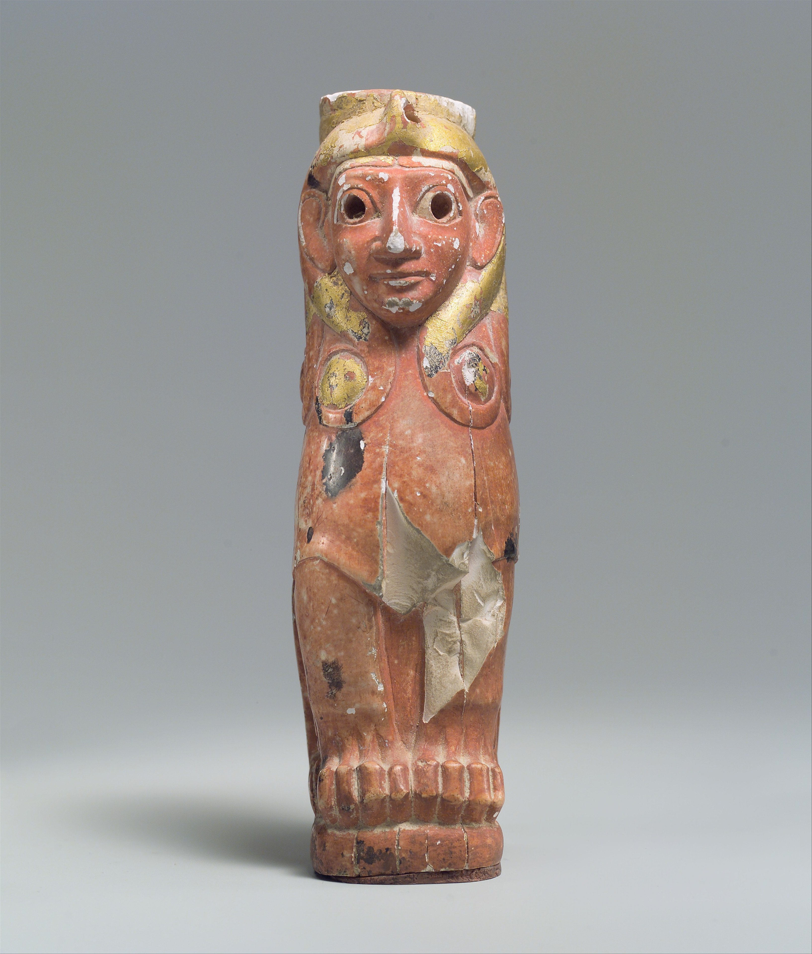 Old Assyrian Trading Colony; Furniture support; Ivory/Bone-Sculpture